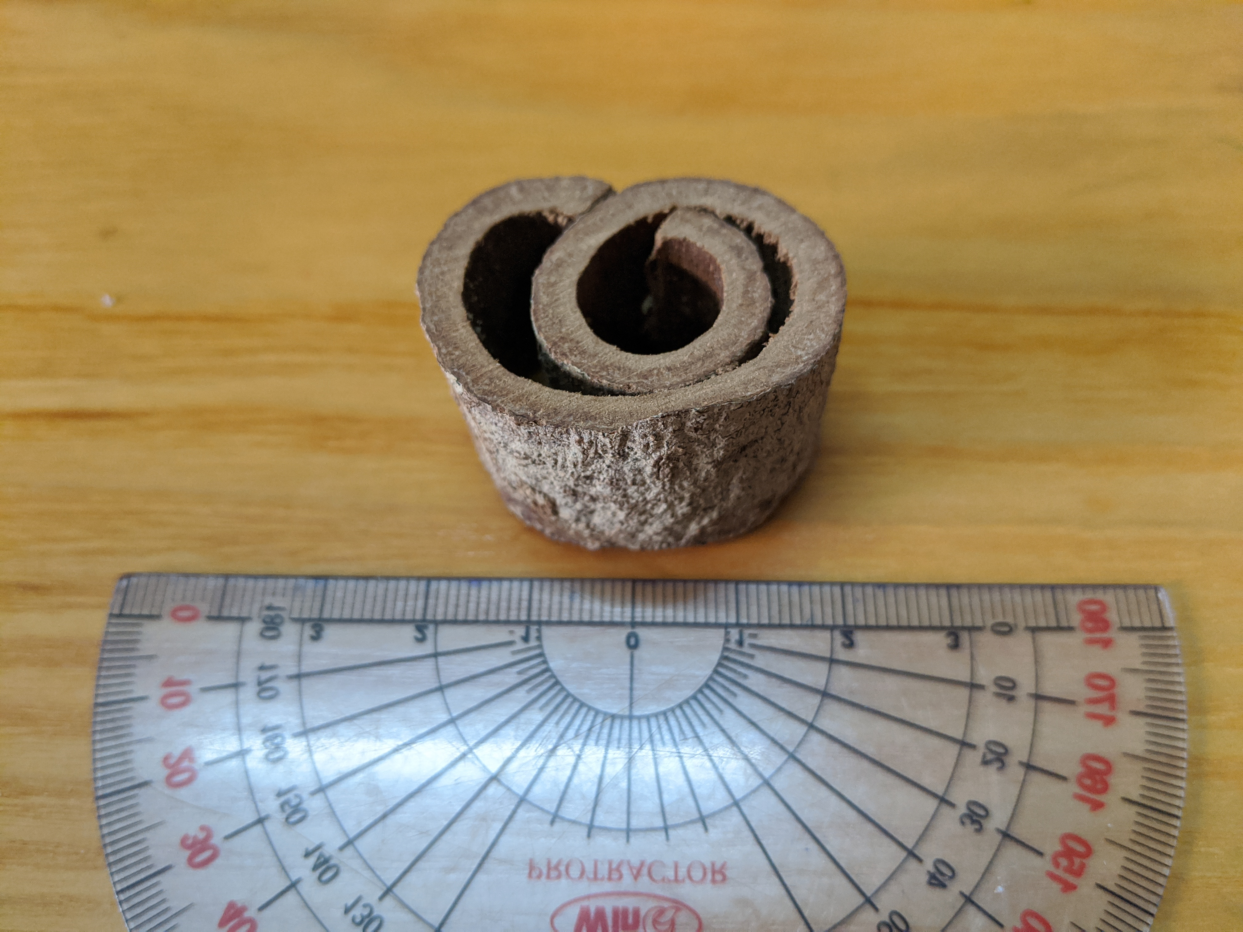 A piece of the bark of cinnamon tree collected in Bac Tra My District, Quang Nam Province, Vietnam